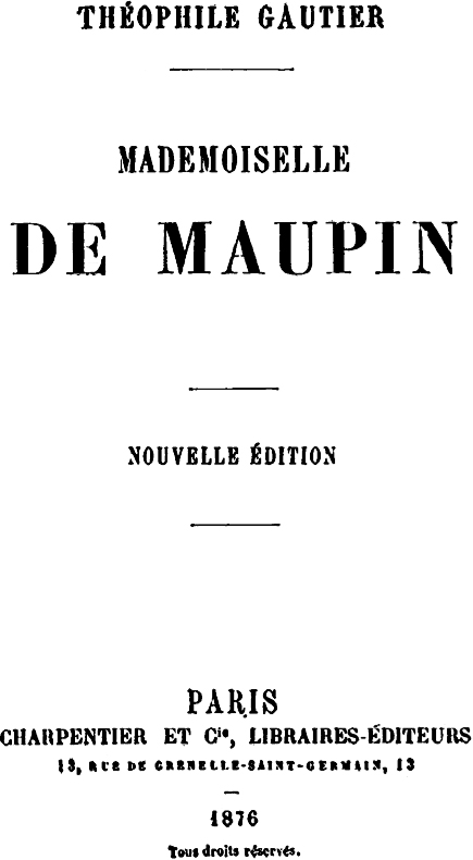 Title page of an 1876 edition of Mademoiselle de Maupin, by Théophile Gautier (1811-1872)